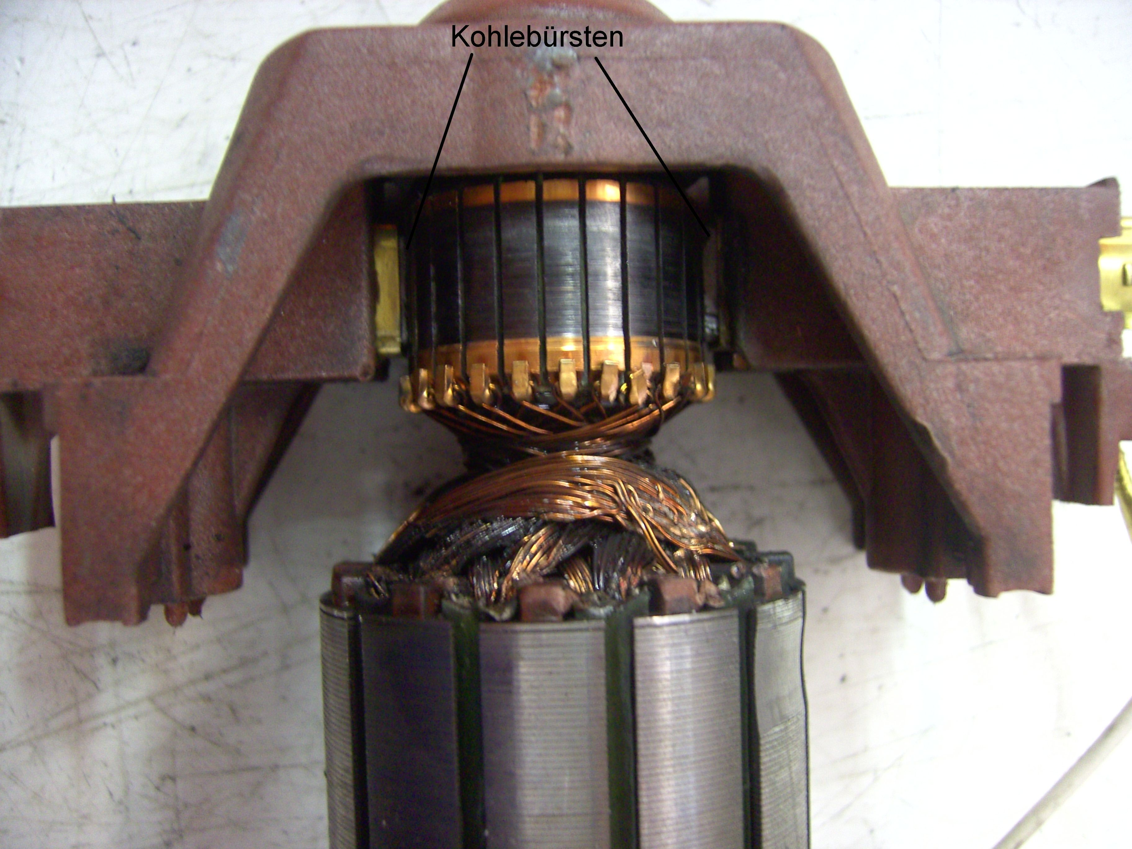 Commutator Universal motor of a vacuum cleaner